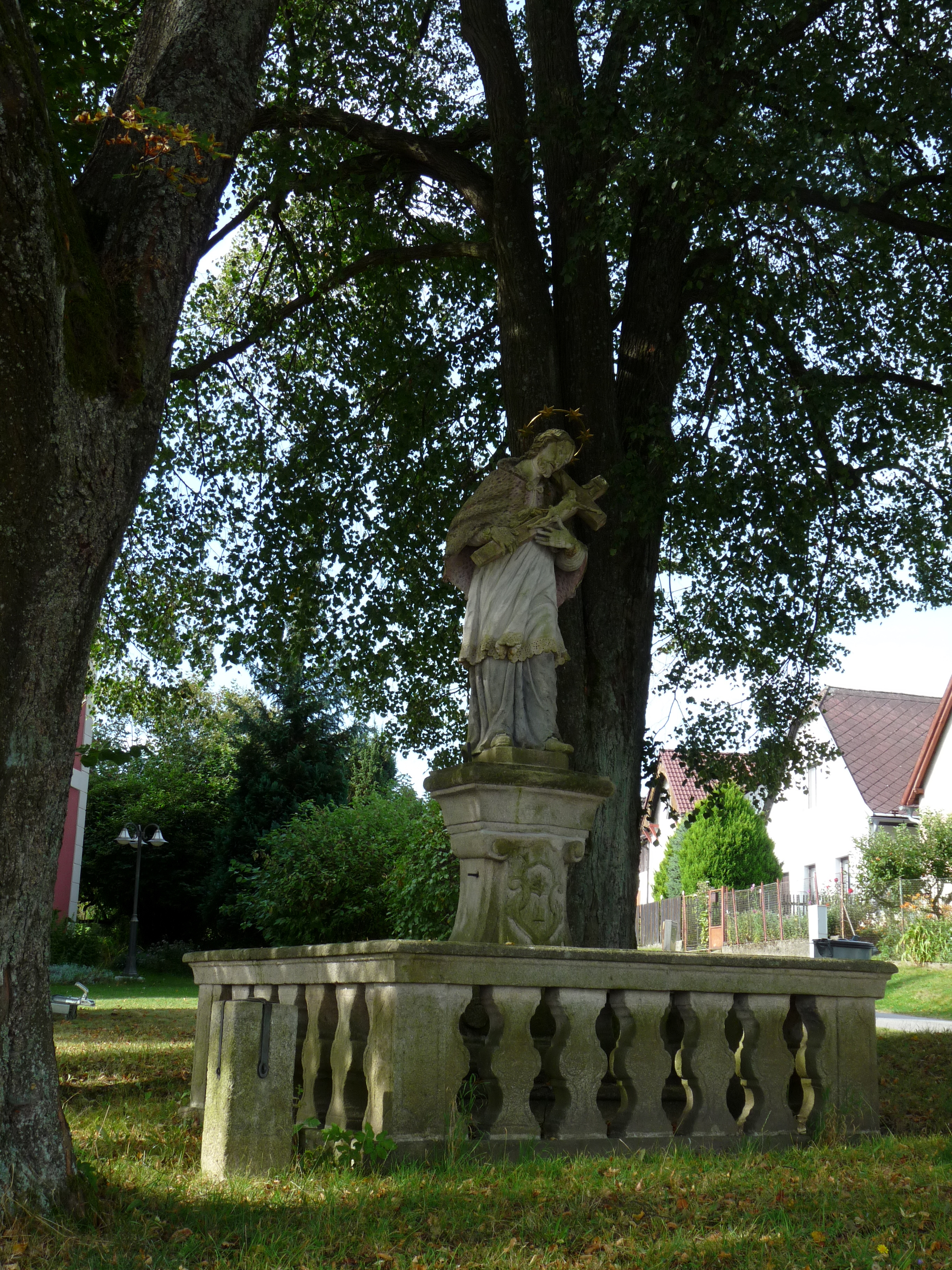 Statue at house No 111 in the village of Hojná Voda, part of Horní Stropnice, south Bohemia, Czech Republic